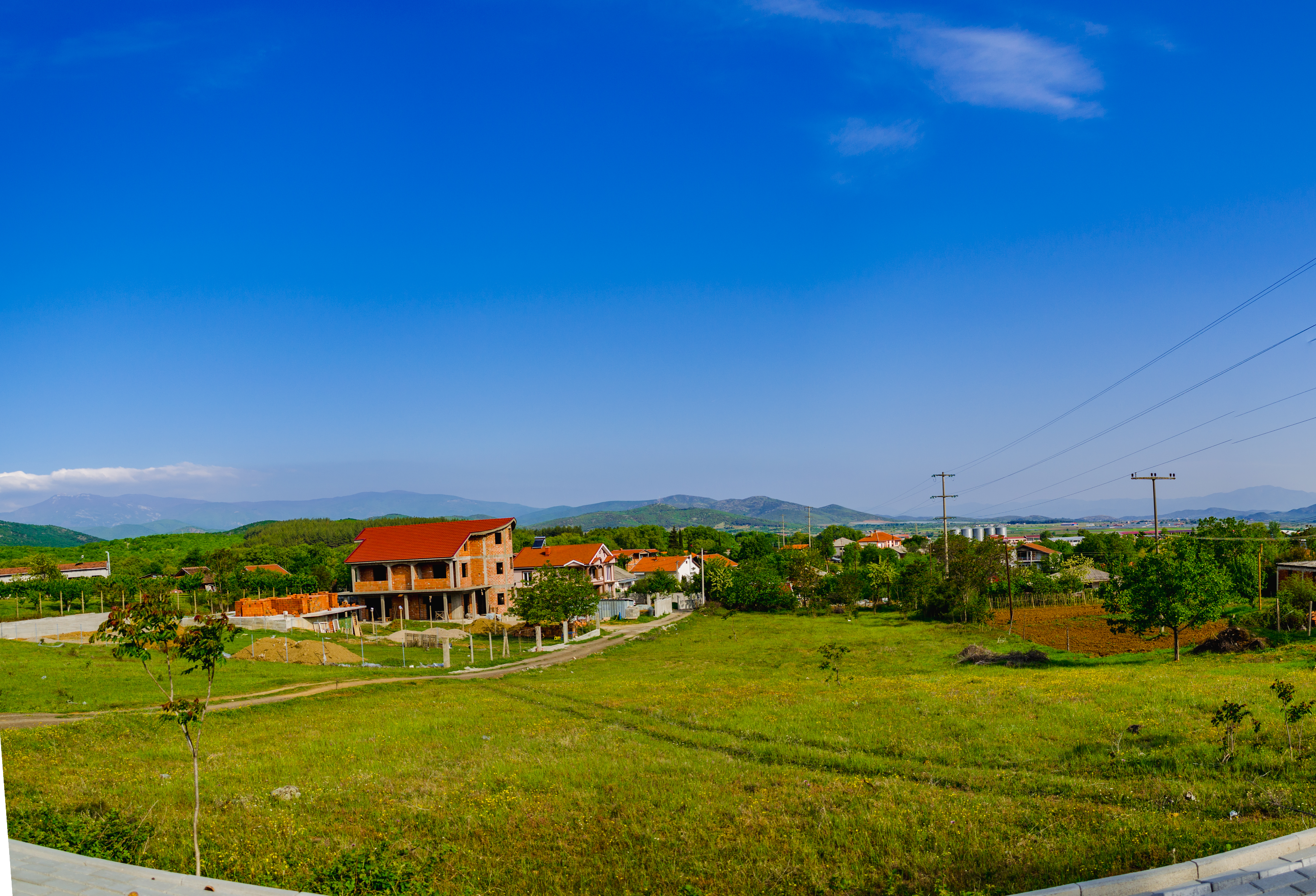 View of the newer part of the village Mrzenci